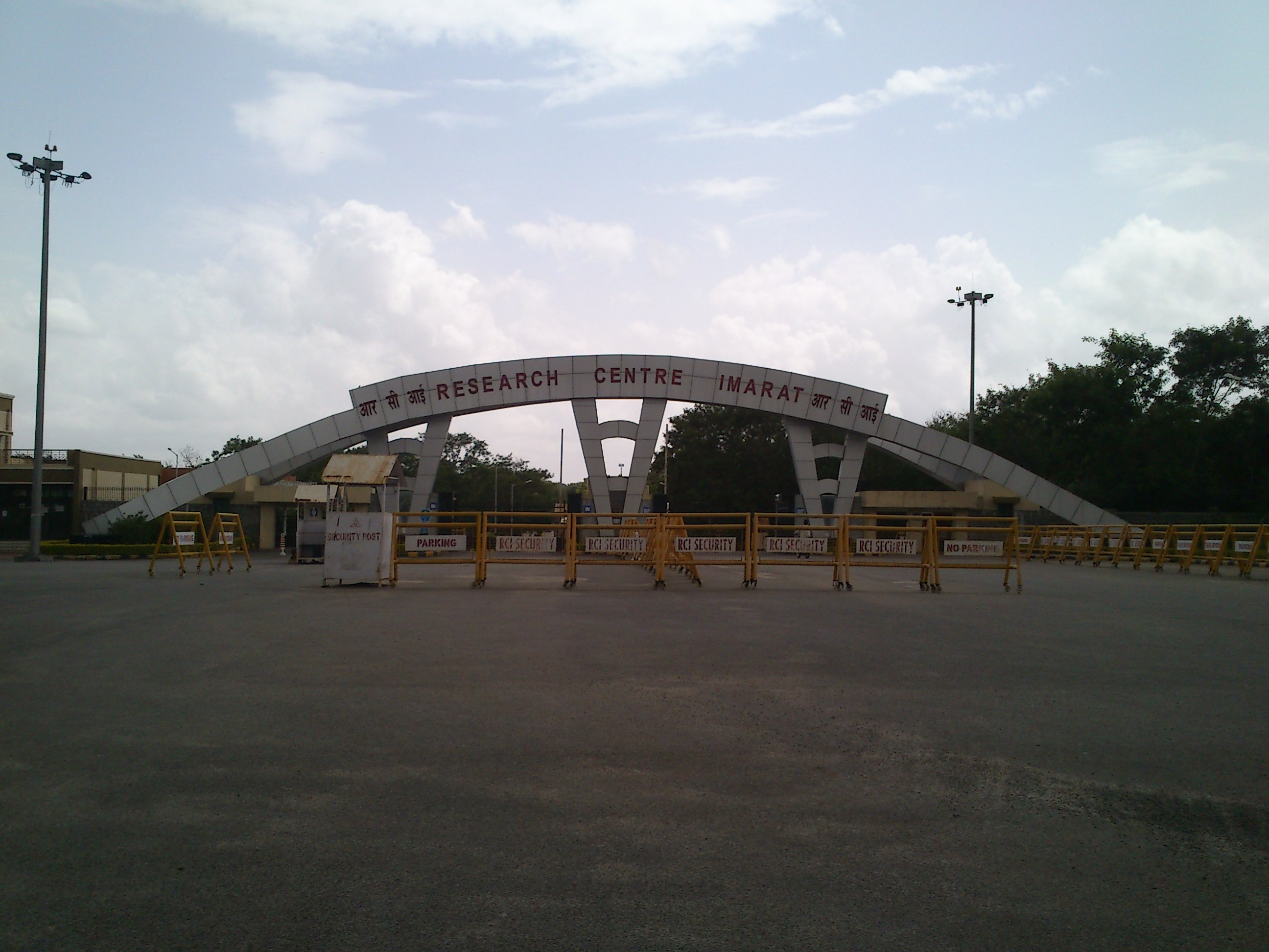 Research Centre Imarat main gate